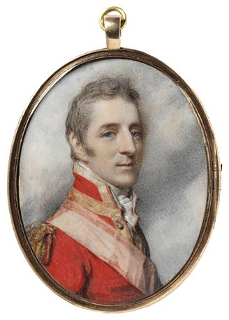 Arthur Wellesley (1769-1852) was created 1st Duke of Wellington in 1814. This miniature was painted at the outset of the Peninsular War, in which Wellesley commanded the Allied forces against the French.